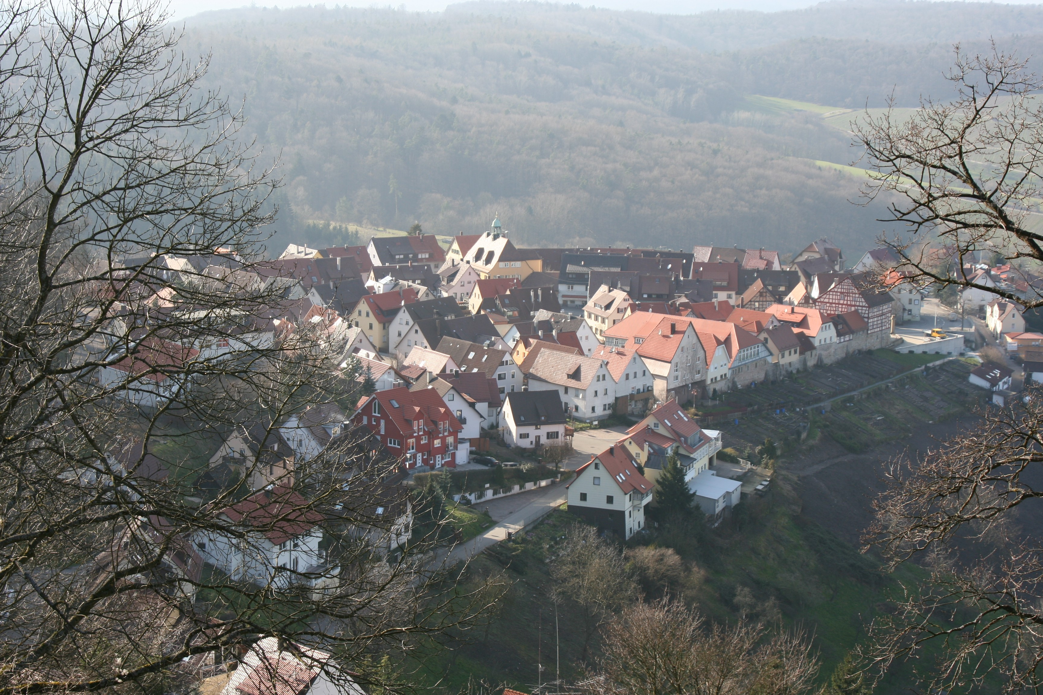 Löwenstein as seen from the East